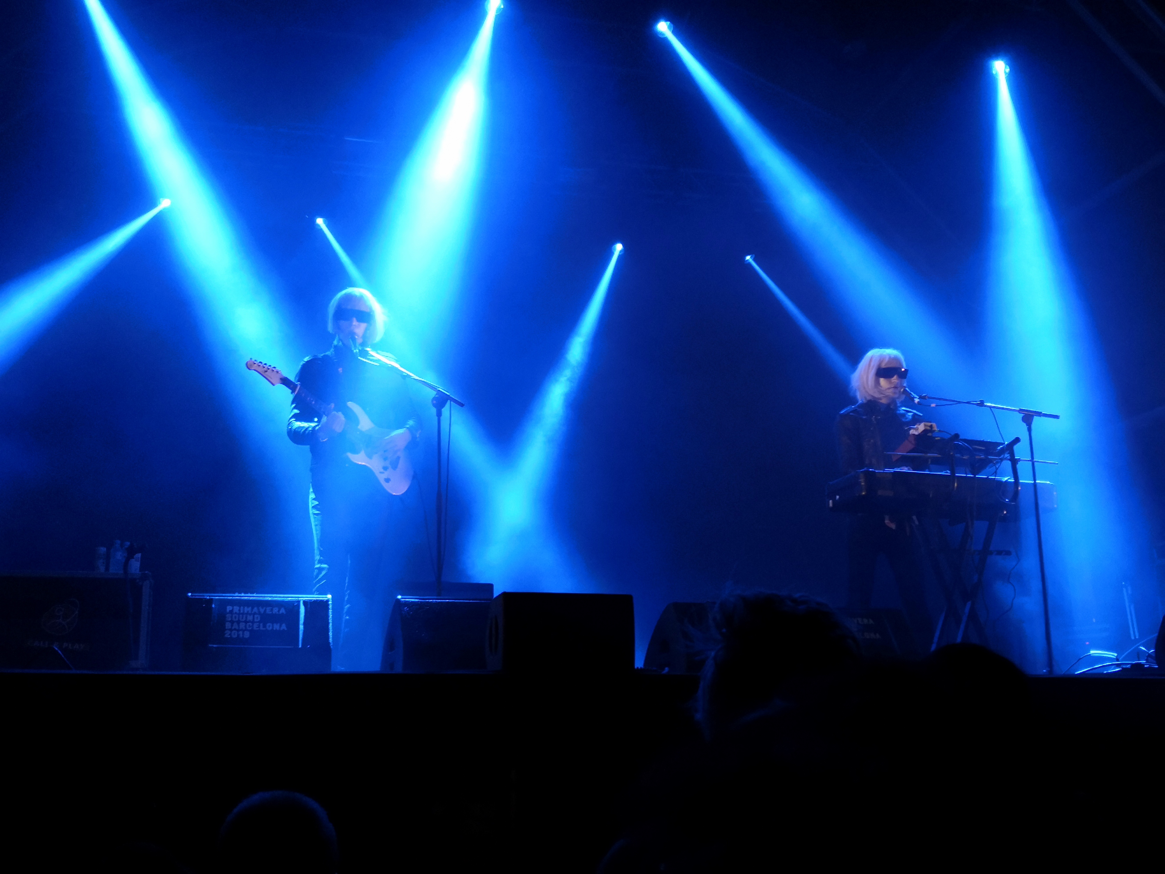 Drab Majesty: Deb Demure (Andrew Clinco) and Mona D. (Alex Nicolaou) performing during Primavera Sound 2019 (BCN, 06/01/2019)